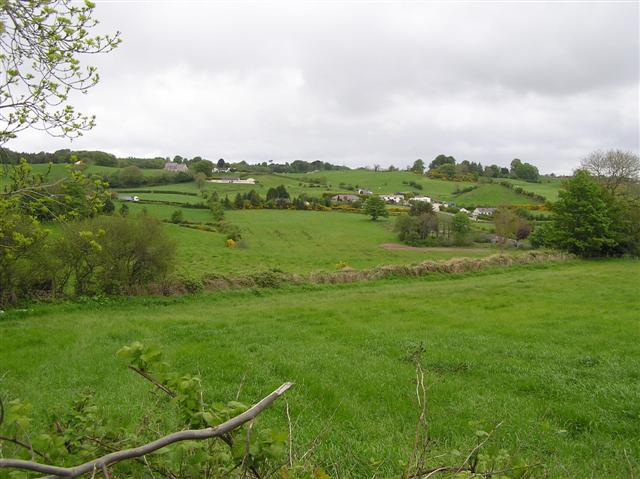 Killey, Pomeroy. Another view of the townland